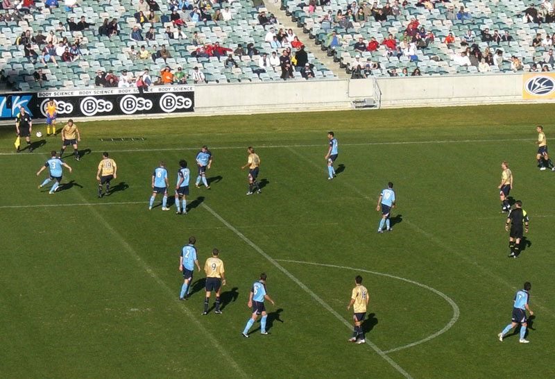 A-League pre season match at Bruce Stadium in Canberra, 22 july 2006, Sydney FC (blue) vs Newcastle United Jets (yellow). I took the photo